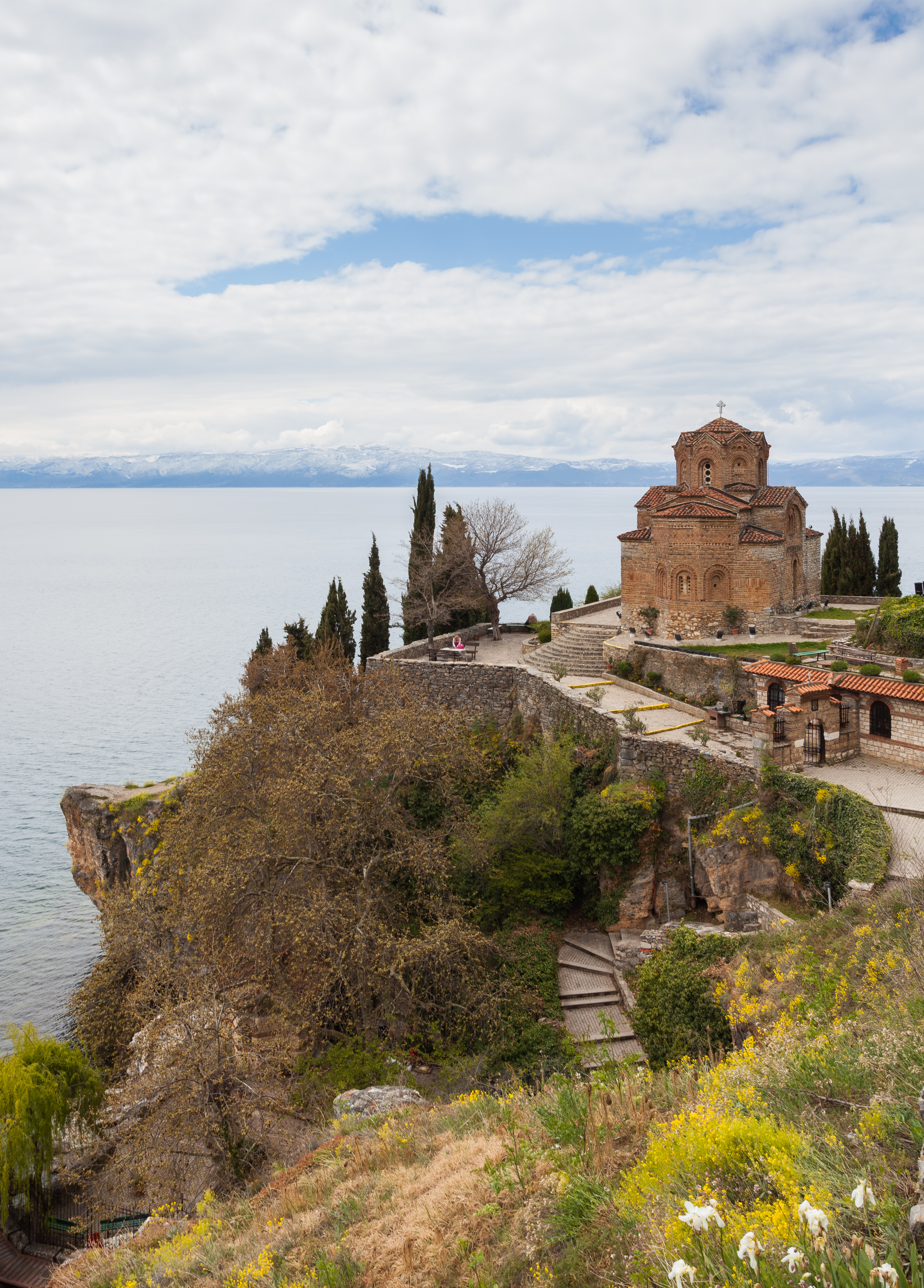 St John Kaneo church, Ohrid, Macedonia